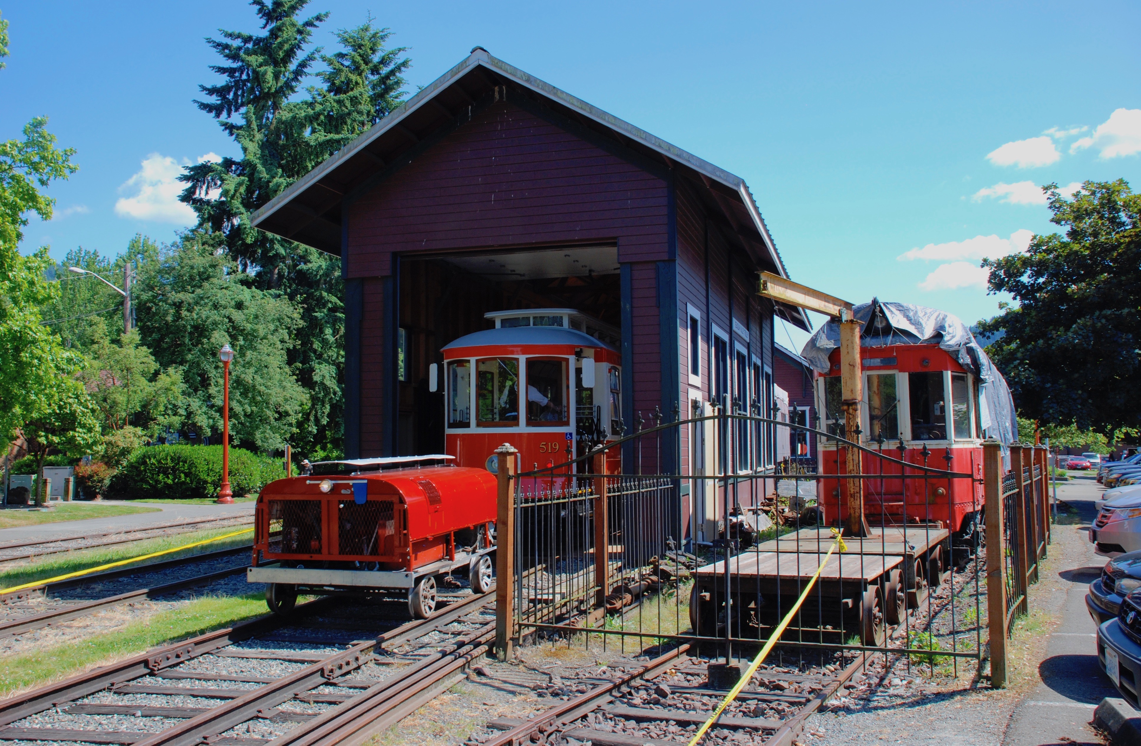 The north end of Issaquah Valley Trolley's carbarn, with ex-Lisbon car pulling in (at the end of the operating day) and ex-Milan interurban car 96 being stored outside, partly covered by a tarp. Car 96 was never operational while in Issaquah, and it was sold to a group in Oregon in 2015 (and left Issaquah in December 2016).